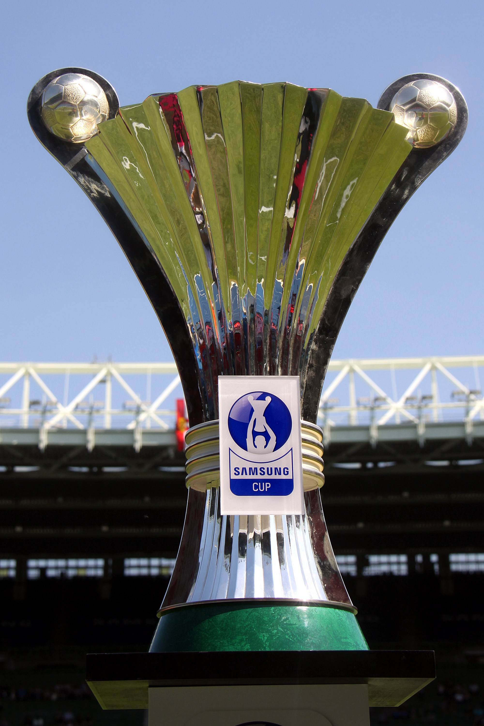 Final of the 2011–12 Austrian Cup FC Red Bull Salzburg vs. SV Ried at 2012-05-20 in the Ernst-Happel-Stadion, Vienna 3:0 (2:0). Object location48° 12′ 25.8″ N, 16° 25′ 15.42″ E